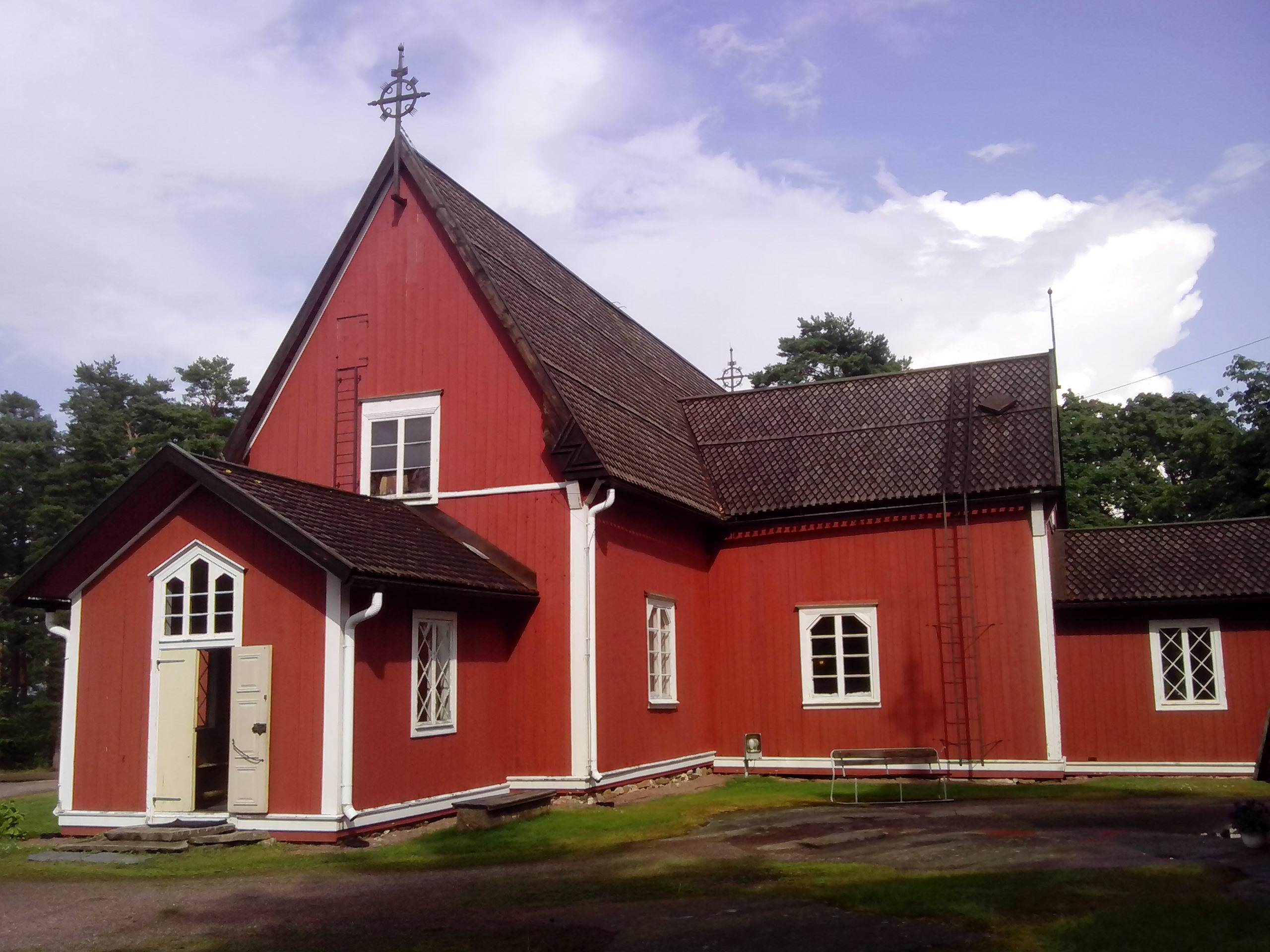 Kustavi church.